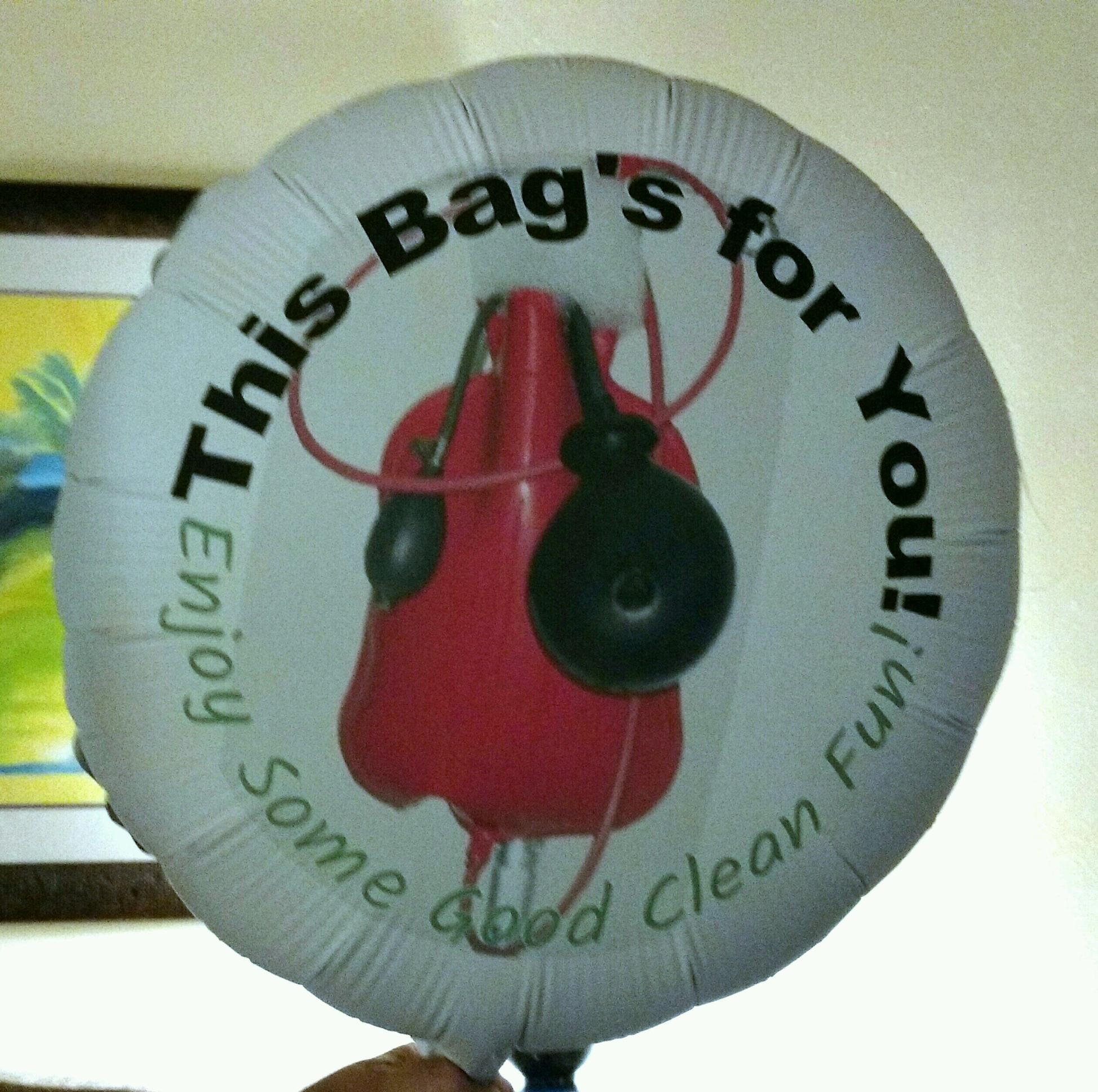 A helium-filled mylar balloon that was a decoration at a gathering of klismaphiles.